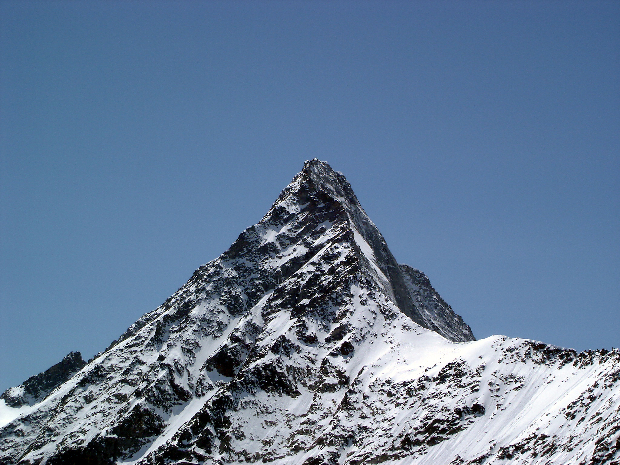 Schrammacher north face, as seen from Riepengrat